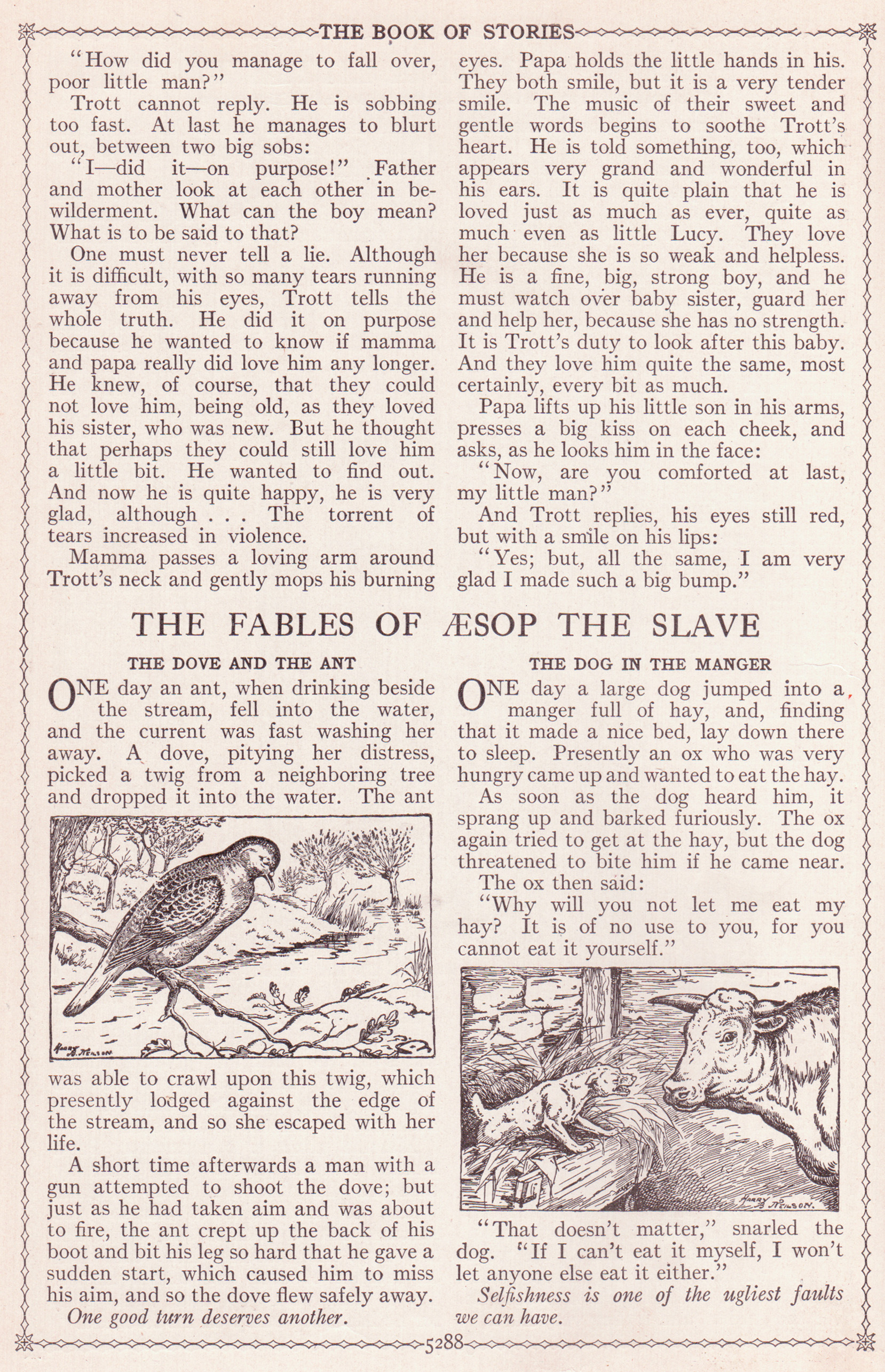 Public domain and copyright free image containing story and illustrations, Ending to The Sad Heart of Little Trot and The Fables of Aesop the Slave. From The Book of Knowledge Volume XVII, Copyright 1919 The Golier Society of New York and The Educational Book Co. of London. Page 5288 Flickr data on 2011-08-16: Tags: 1919, Grolier Society, black and white, drawing, Book of Knowlege, vintage, book, illustrations License: CC BY 2.0 User: perpetualplum Sue Clark